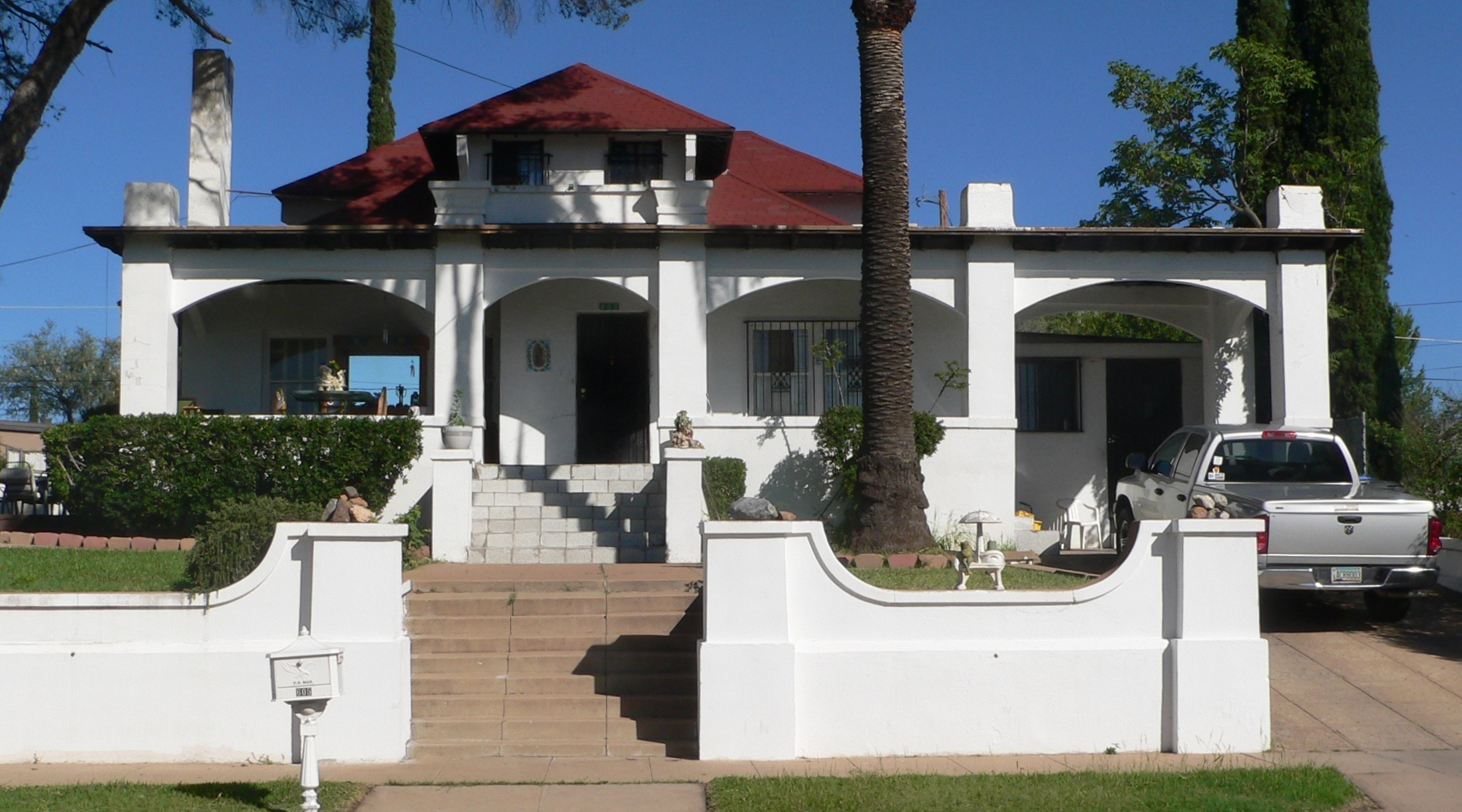 George Dunbar house, located at 605 Sierra Avenue in Nogales, Arizona.